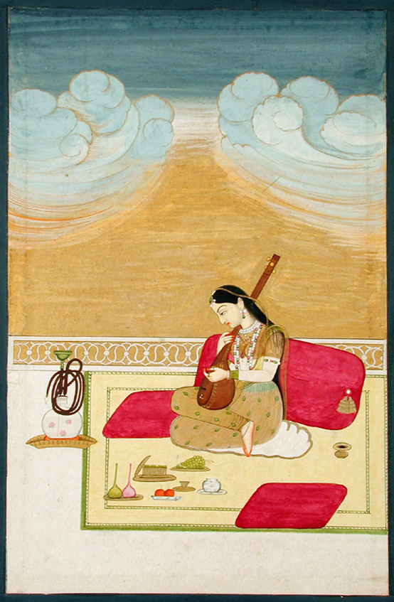 Creation Date: ca. 1790 Display Dimensions: 7 9/16 in. x 4 11/16 in. (19.2 cm x 11.9 cm) Credit Line: Edwin Binney 3rd Collection Accession Number: 1990.1236 Collection: The San Diego Museum of Art